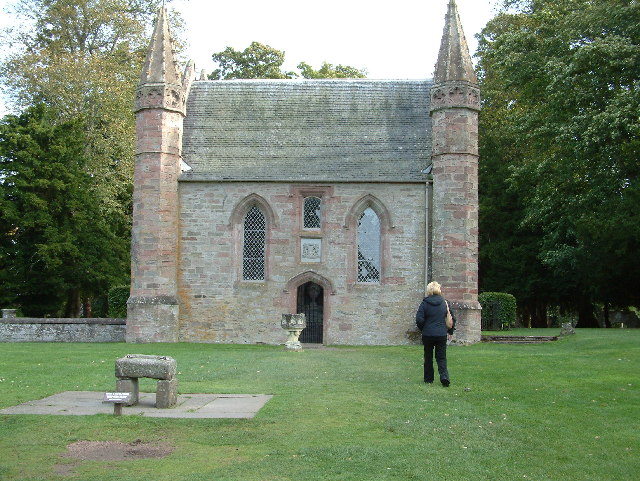 Scone Chapel. Small Presbyterian chapel, adjacent to Boot or Moot Hill.